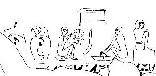 A scene of the tomb of Ibi (TT 36), chief steward of the divine adoratrice in the time of Psametek I (ca. 664-610 BC); this may show a workman (right) mixing faience ingredients while another workman (left) finishes a more complete piece.